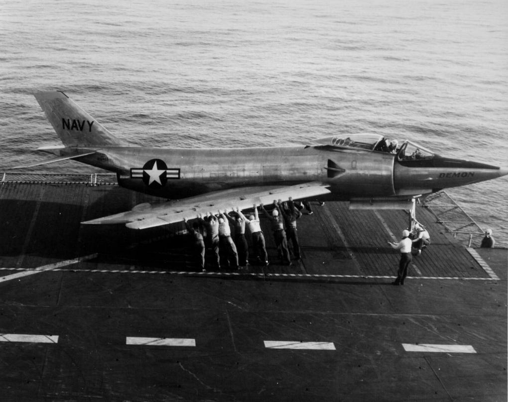 The second McDonnell XF3H-1 Demon prototype (BuNo 125445) being pushed on the port elevator during carrier trials aboard the aircraft carrier USS Coral Sea (CVA-43) in October 1953.